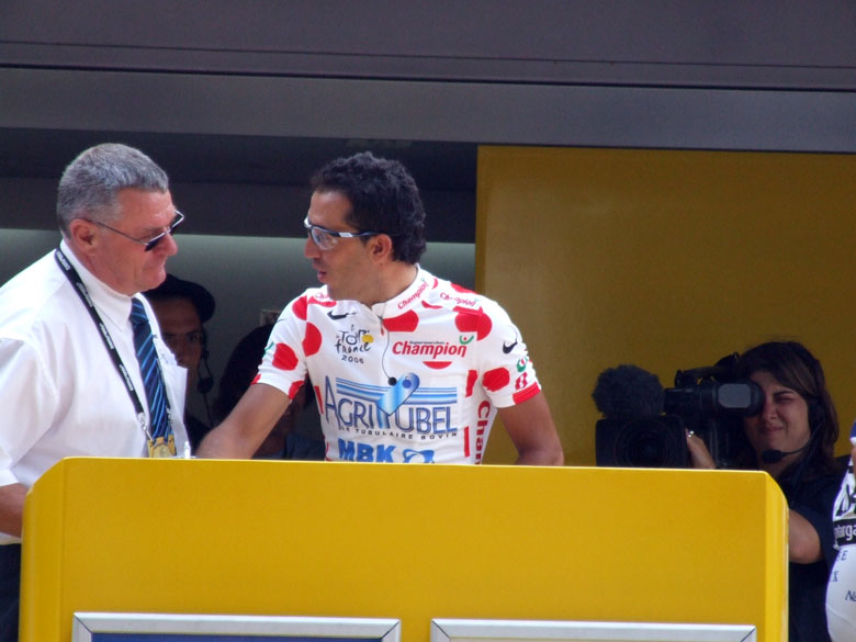 Mercado signing in at the 2006 Tour de France from Tarbes. Taken by Stitchface.